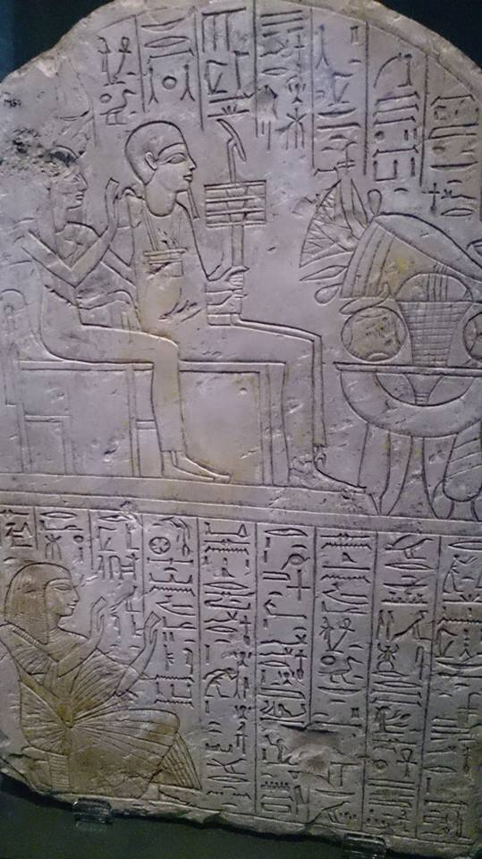 Hieroglyphics on a funerary stela